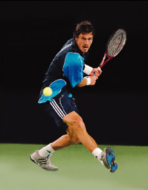 Safin is renowned for his devastating backhand